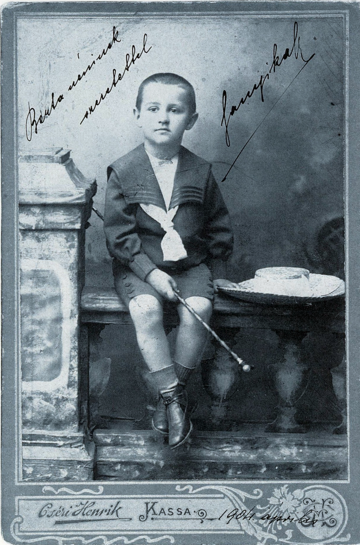 Hungarian author Sándor Márai at the age of 4